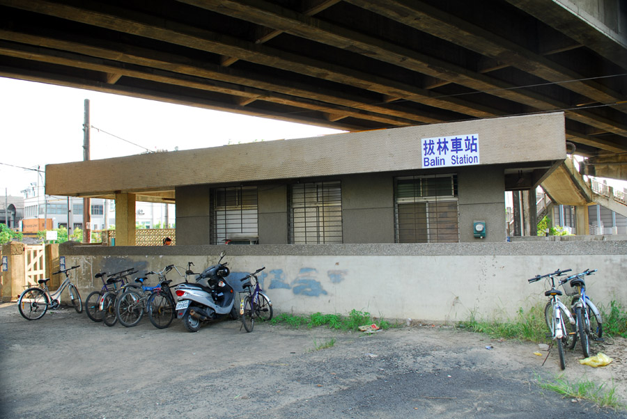 BaLin Station is a small local train station of Taiwan's Western main rail line. It's located within the boundary of GuanTian Township, TaiNan County. Although a small station, BaLin Station has a moderate peak-hour passenger volume due to its location approximate to some residential and industrial areas.